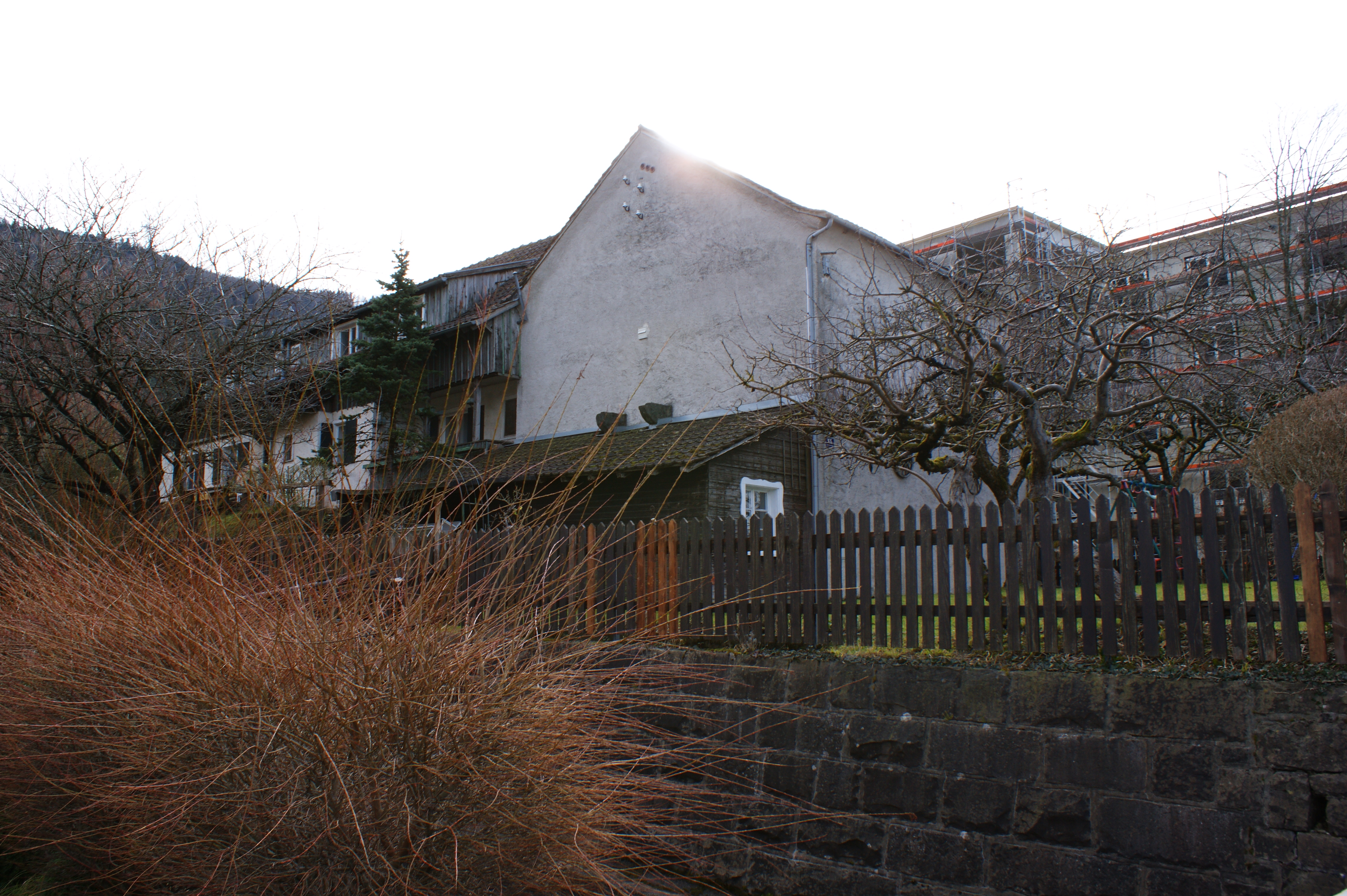 "New Schanze" in Lochau, Vorarlberg Austria. Part of a fortification, which was built in 1642 as the third barrier in the context of the Thirty Years' War against the advancing Swedish troops under General Carl Gustaf Wrangel. The building is a listed building. The Klausmühlebach, which was part of the fortification, flows next to the building.